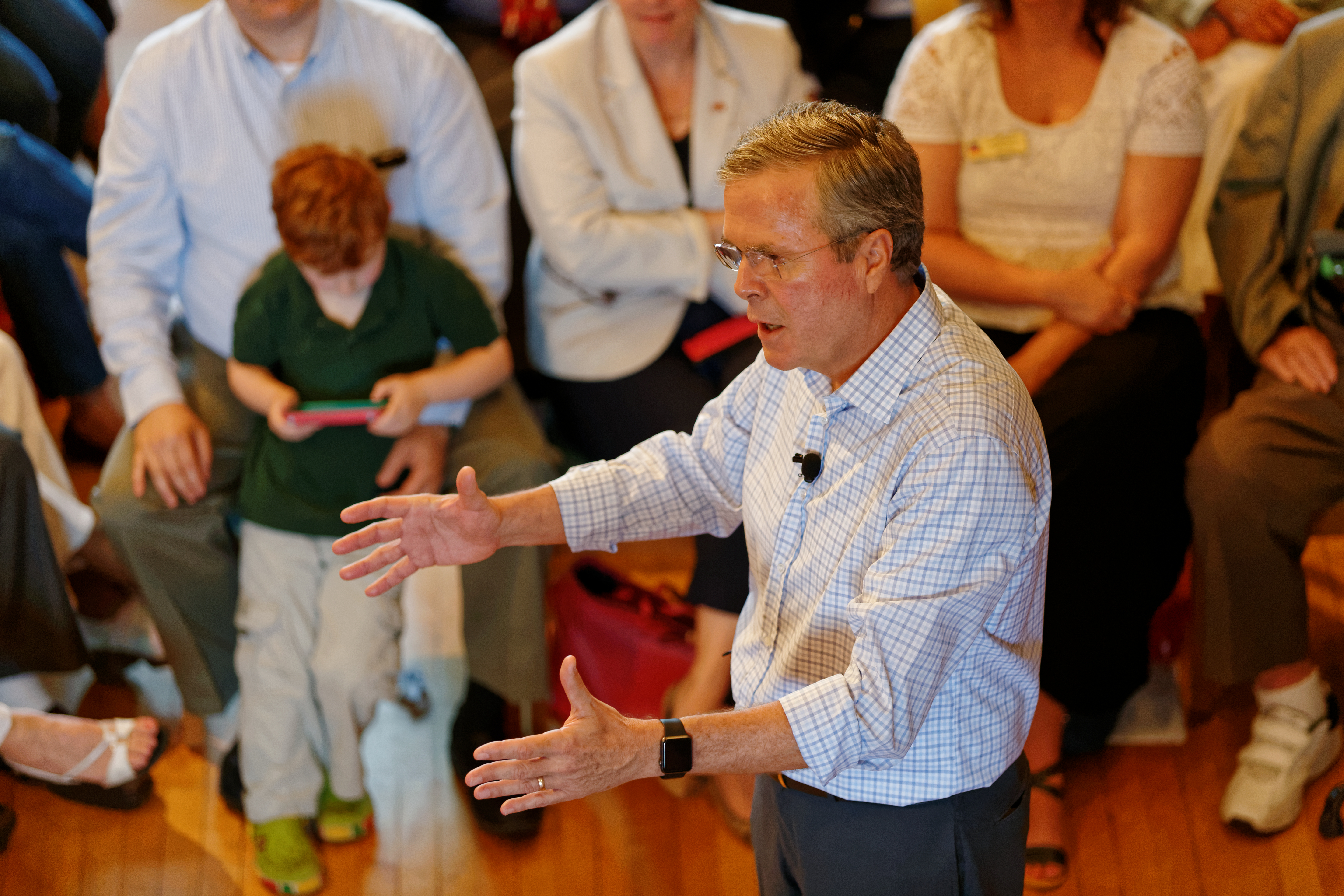 JebBush #JebBush2016 #JebBushForPresident #Jeb #Jeb2016 #JebForPresident Newly declared Republican presidential candidate Jeb Bush says he is the presidential candidate that can help the economy grow. The former Florida governor is speaking at a town-hall event in the key Republican primary state of New Hampshire a day after announcing his candidacy for the 2016 race. Bush began the event at the Adams Memorial Opera House on Tuesday with his back turned to the audience for an interview with television and radio host Sean Hannity. Bush repeatedly criticized Democratic front-runner Hillary Rodham Clinton, calling her a formidable candidate but questioning her accomplishments. He also emphasized Washington's dysfunction and spoke of his goal of 4 percent annual growth for the economy. Adams Memorial Opera Address: 29 W Broadway, Derry, NH 03038 Phone:(603) 437-0505